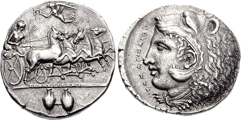 Sicilia, Camarina. Circa 425-405 BC. AR Tetradrachm (17.15 g, 8h). Obverse die signed by Exakestidas. Athena driving galloping quadriga right, holding in her extended hands a wreath tied with fillet which she places on Athena's head; two amphorae in exergue connected by line; signature EΞAKEΣTIΔAΣ (EXAKESTIDAS) on exergue line ΚΑΜΑΡΙΝΑΙΟΝ (KAMARINAION), head of Herakles left, wearing lion skin headdress.